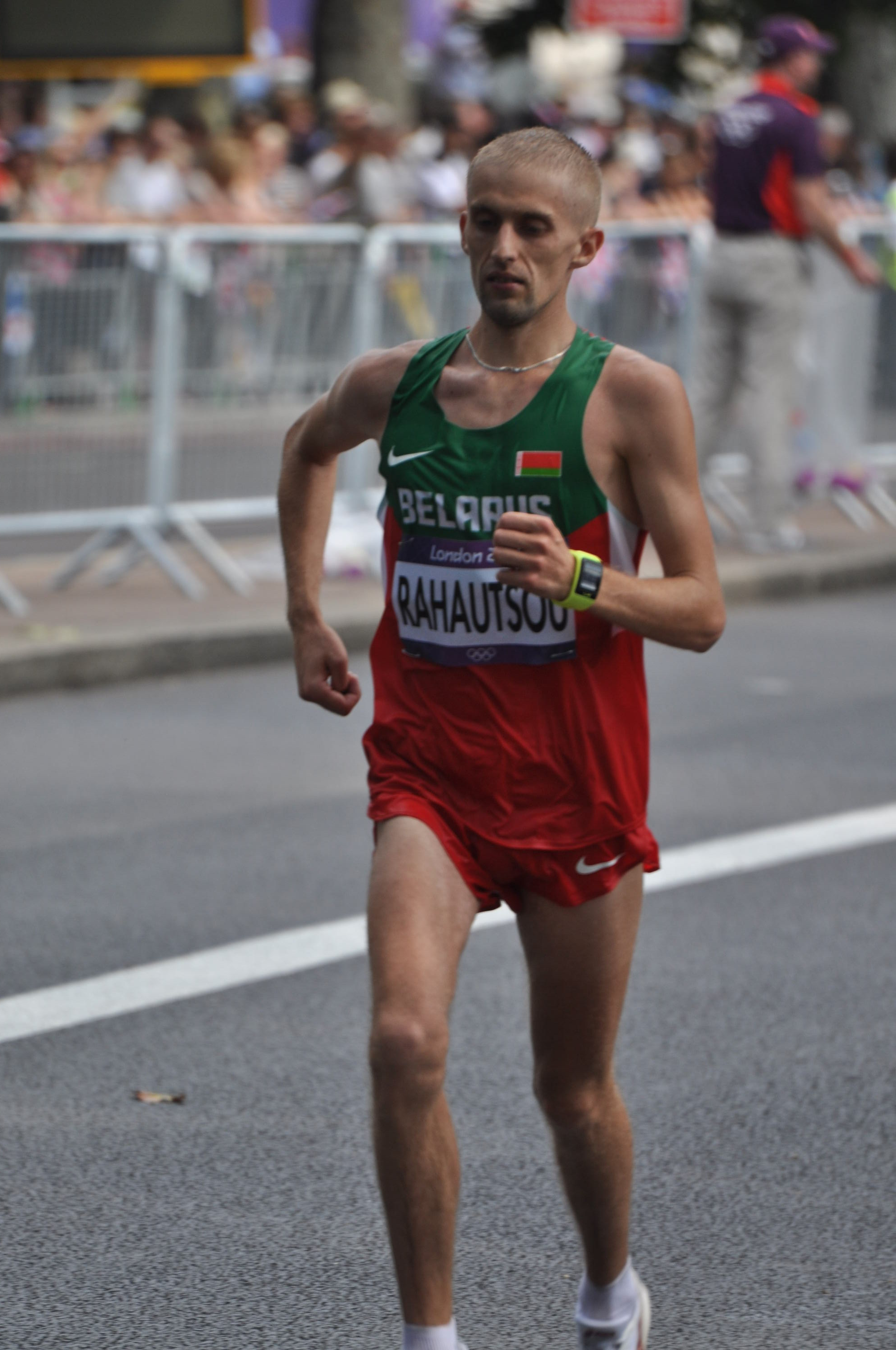 Stsiapan Rahautsou, long-distance runner from Belarus at 2012 Olympic Marathon